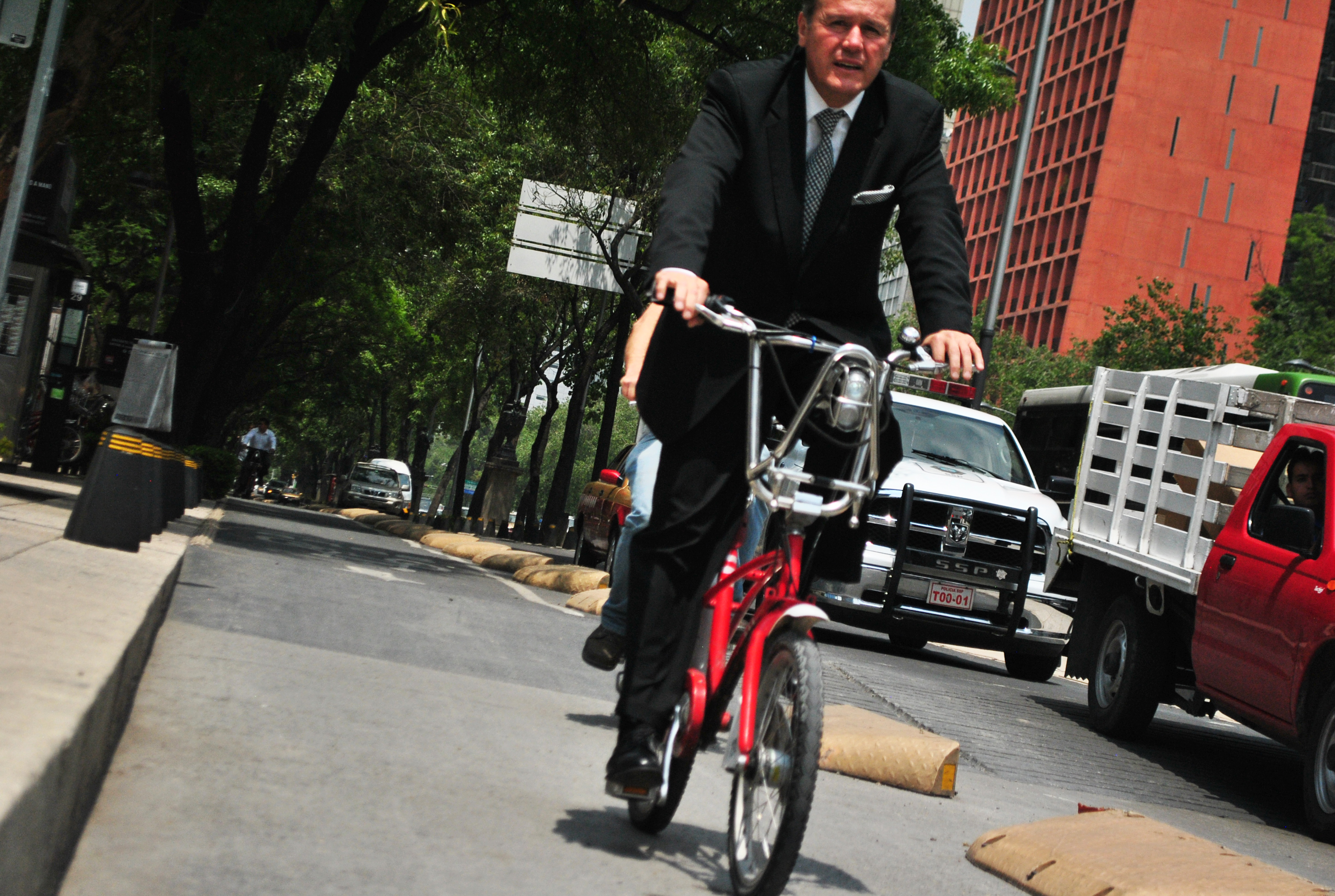 A biker using an EcoBici, bicycle sharing system, in Paseo de la Reforma and Bucareli.